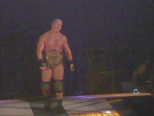 TNA Superstar, Television Champion, Eric Young.